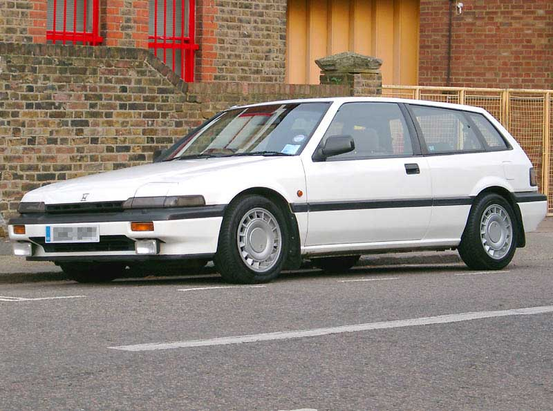 aerodeck, British Spec